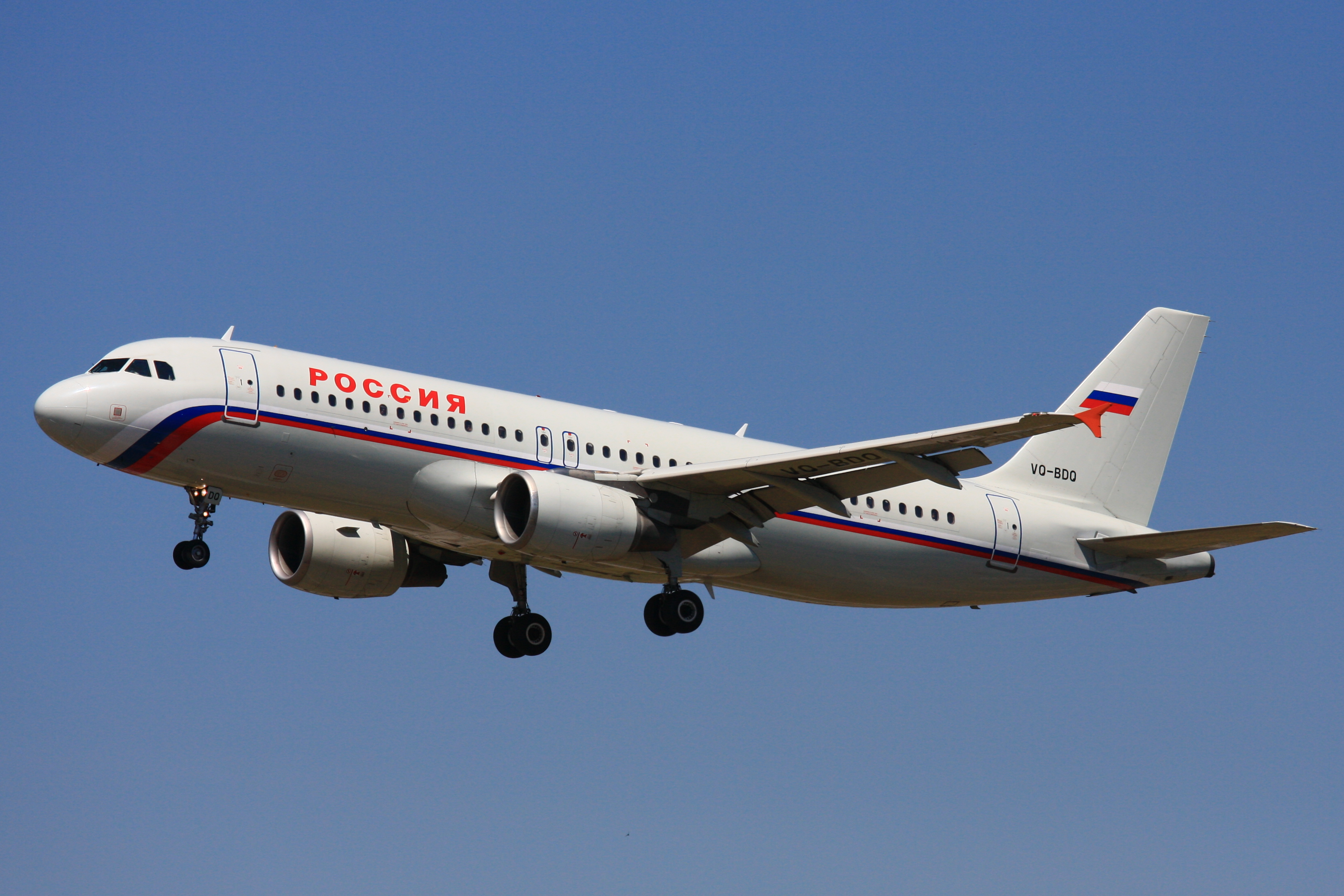 An Airbus A321 of Rossiya landing at Frankfurt Airport